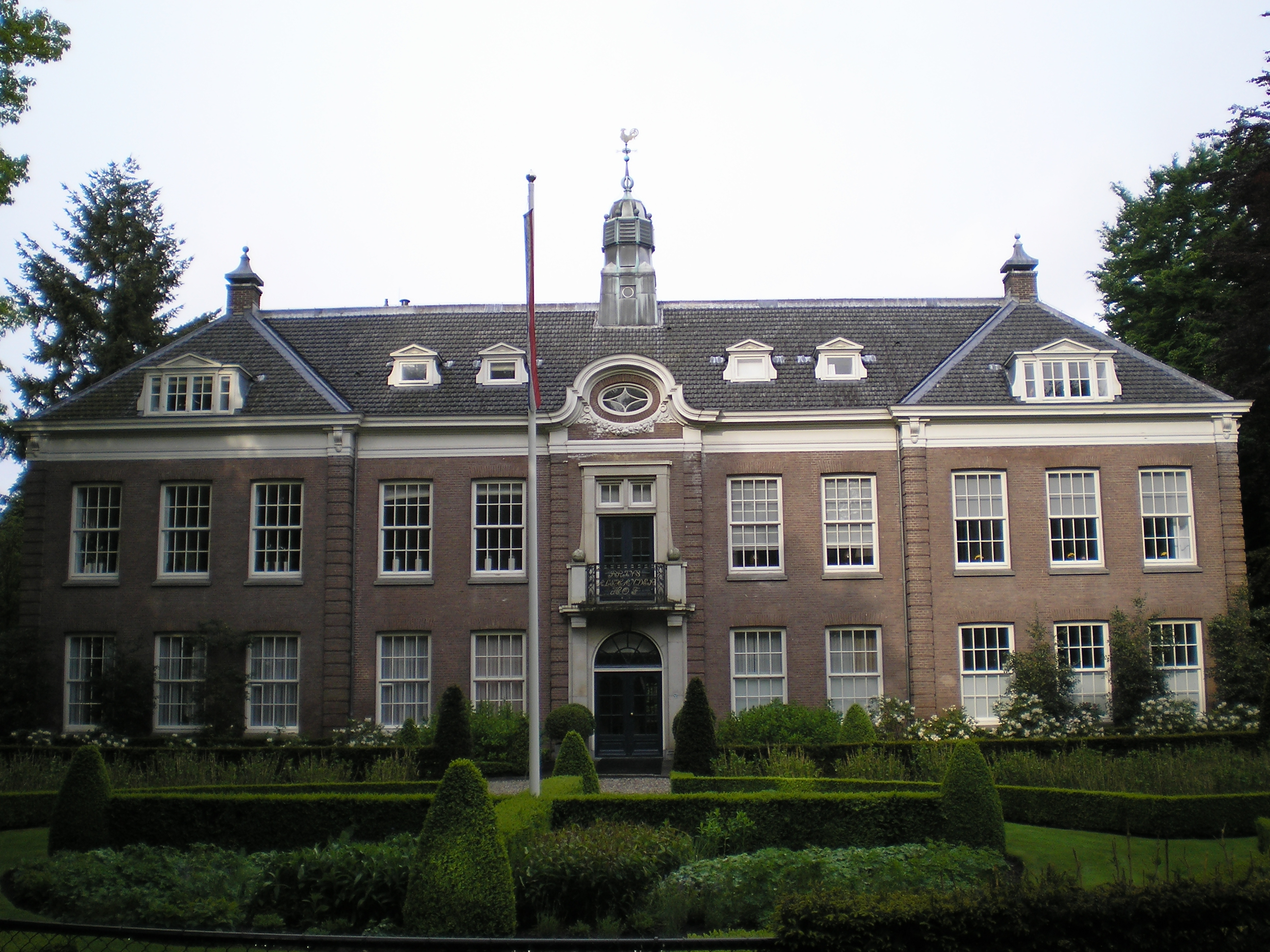 Former Institute for the Blind to the Prince Alexanderweg 78 in Huis ter Heide in the Netherlands